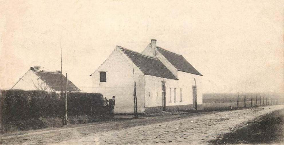 This is a post card titled "Souvenier de Waterloo -- Maison Lacoste" (Decoster's house)" issued around 1900. Docoster house is mentioned in many accounts of the Battle of Waterloo (18 June 1815)